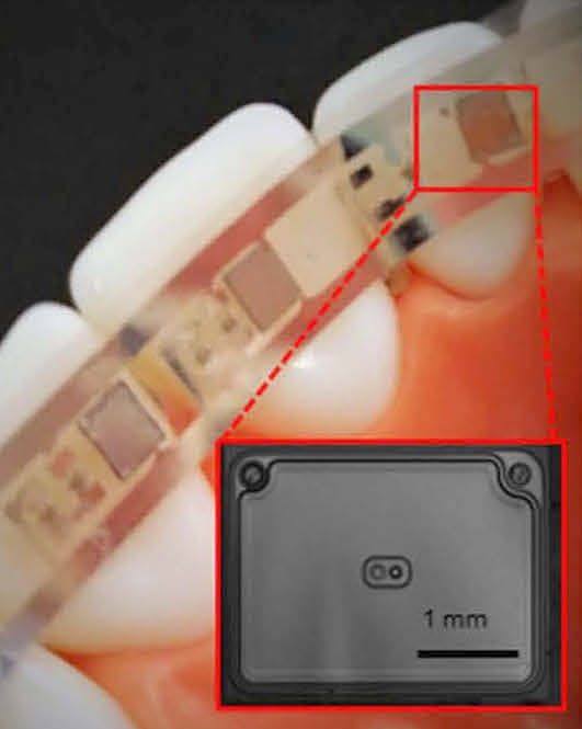 Optical image of an intra-oral implantable device that relies on millimeter-sized flexible, biocompatible lithium-ion battery as a rapid powering solution